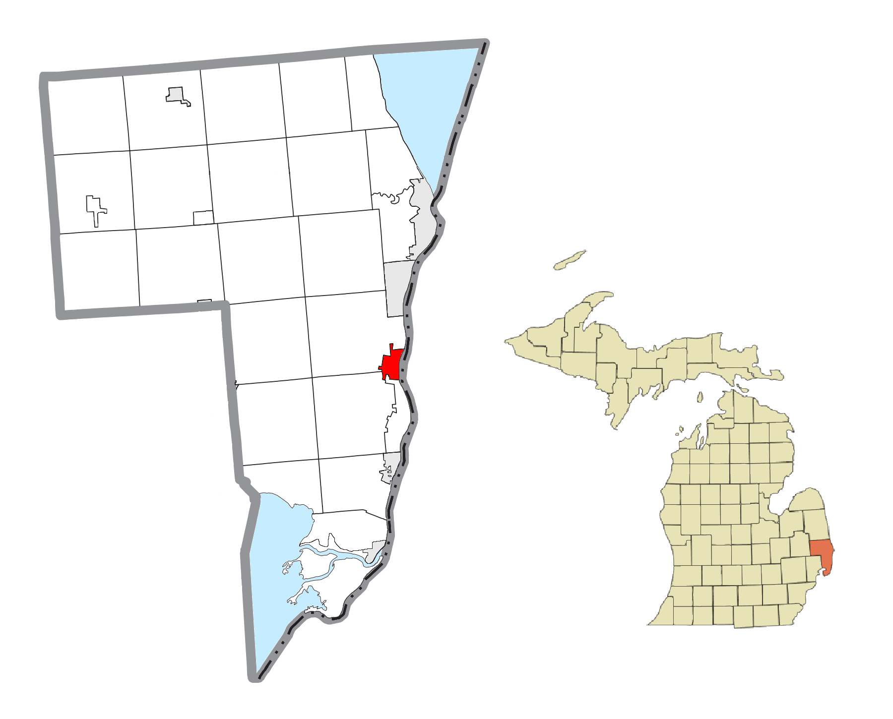 St. Clair (city), MI